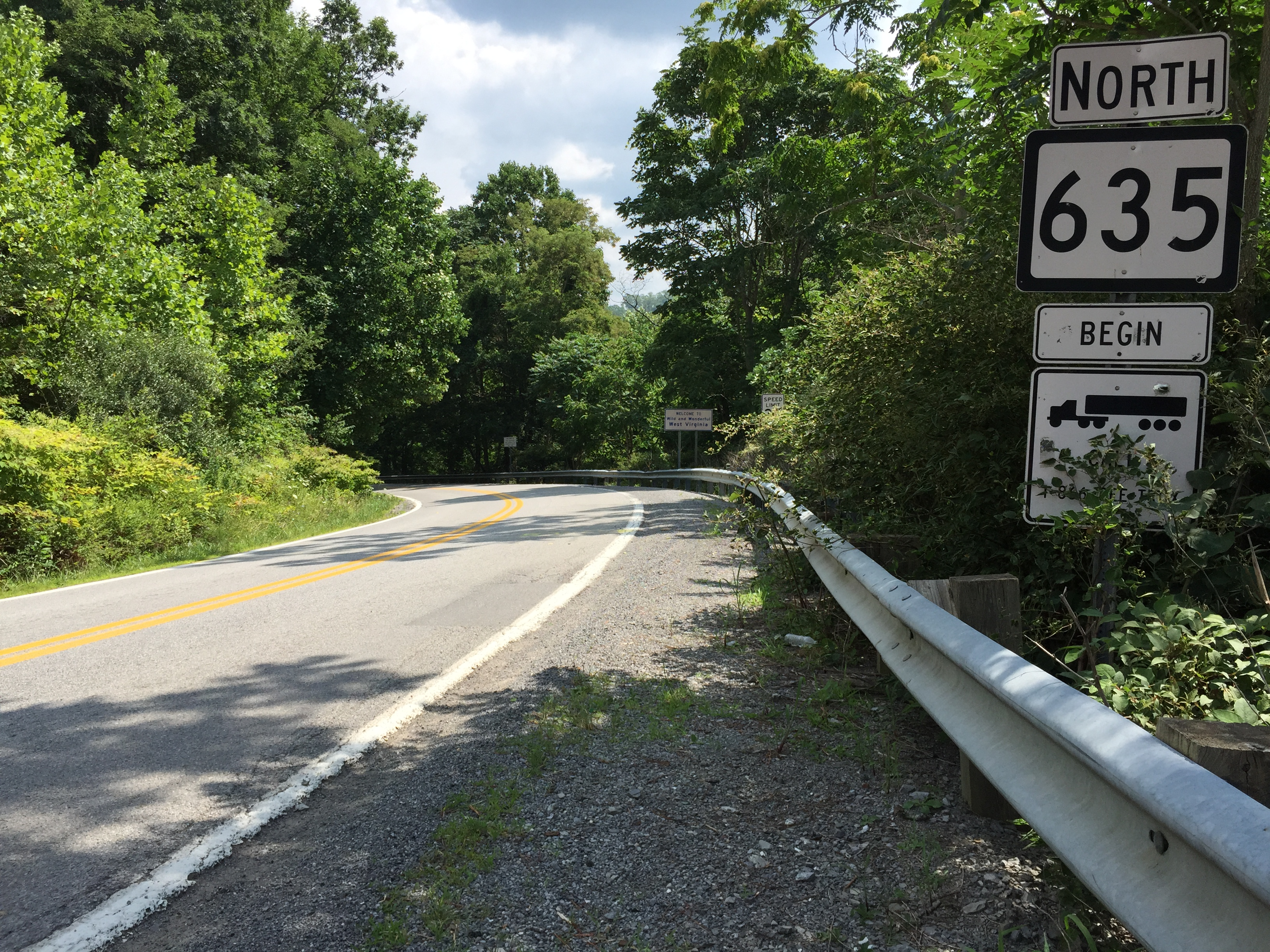 View north along West Virginia State Route 635 (Wimmer Gap Road) at Pea Patch Road (Virginia State Secondary Route 616) at Wimmer Gap, crossing from Buchanan County, Virginia to McDowell County, West Virginia